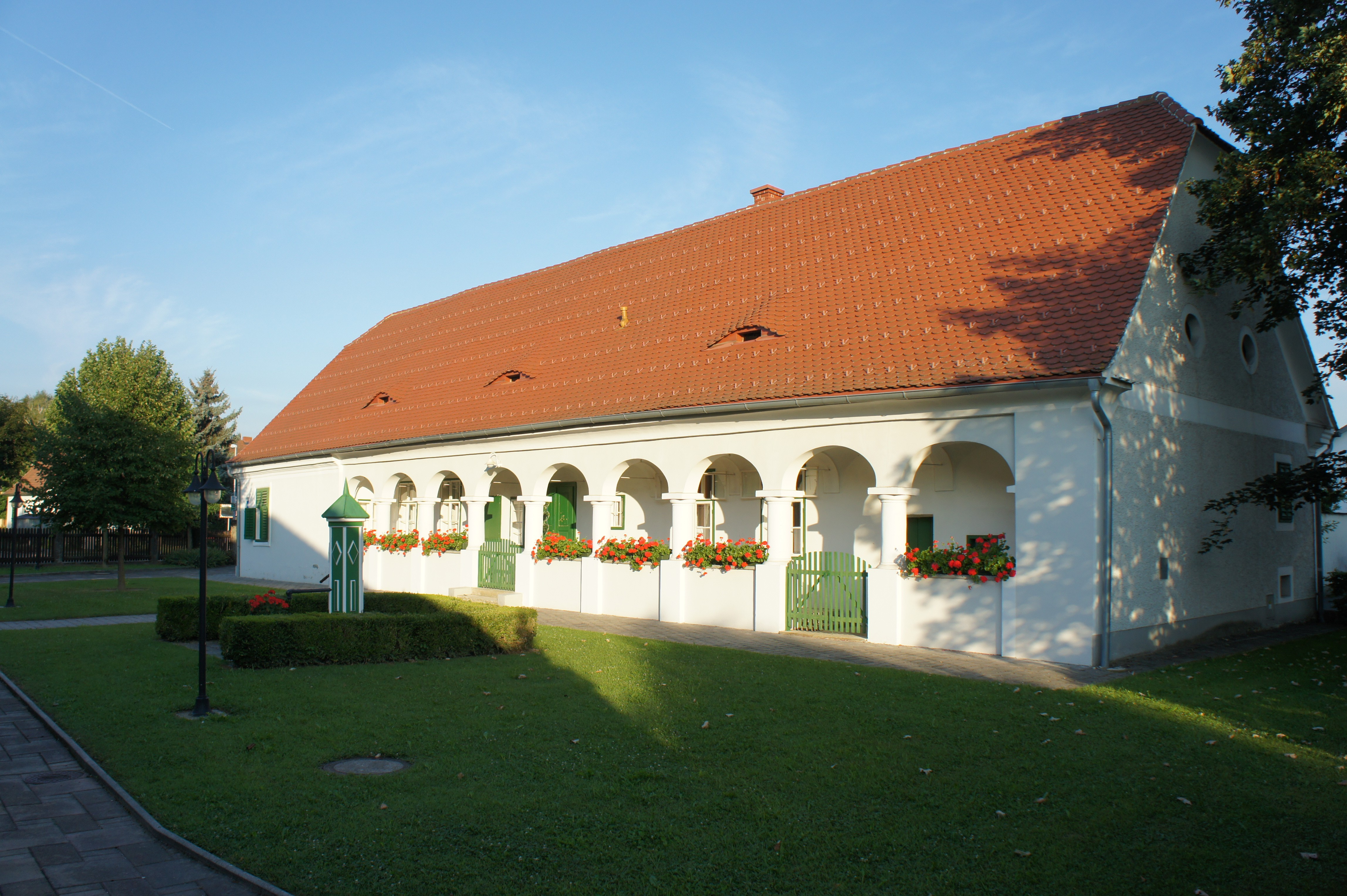 Former evangelic rectory H.C., Oberwart, Austria